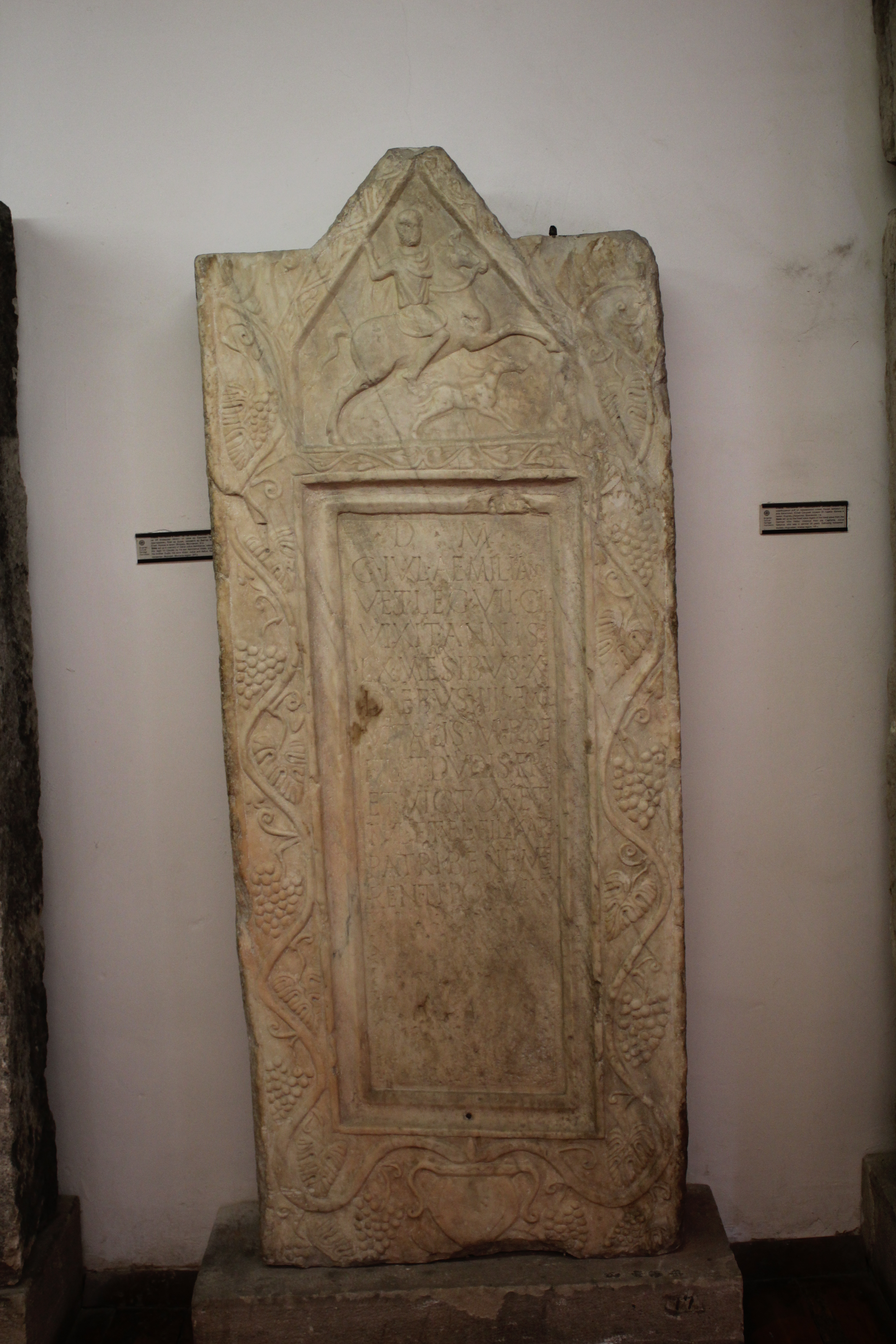 Roman Monument from Mokresh, Montana, Bulgaria.